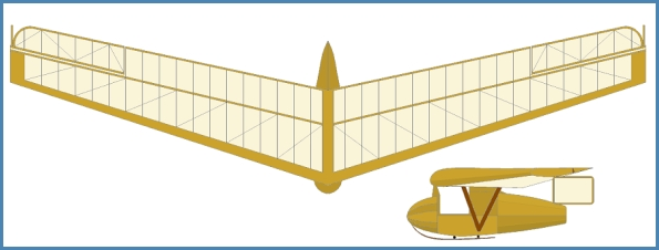 RRG Storch Flying Wing